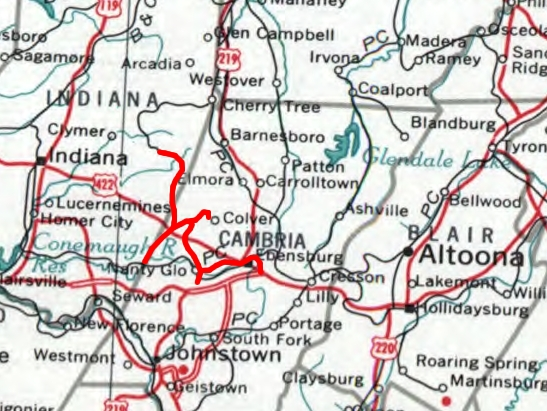 Map of the Cambria and Indiana Railroad